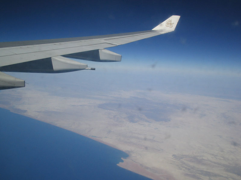 Viewed from an Emirates Airline aircraft 37,000ft above the Persian Gulf. Beris is located in the Sistan and Baluchestan province of Iran, on the gulf of Oman, between Chah Bahar and the Iran-Pakistan border.